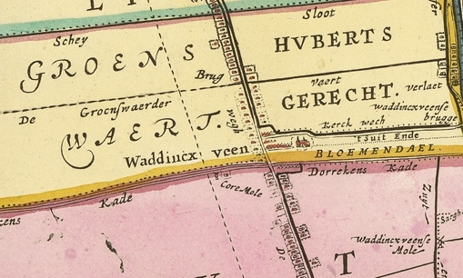 Historical map of Waddinxveen (1687), the Netherlands